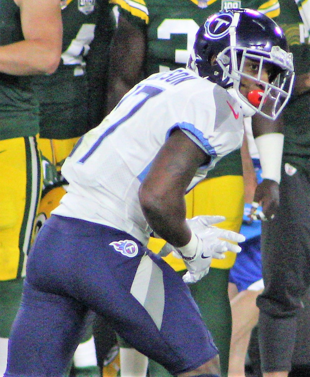 Cameron Batson, Tennessee Titans at Green Bay Packers (Preseason), August 9, 2018